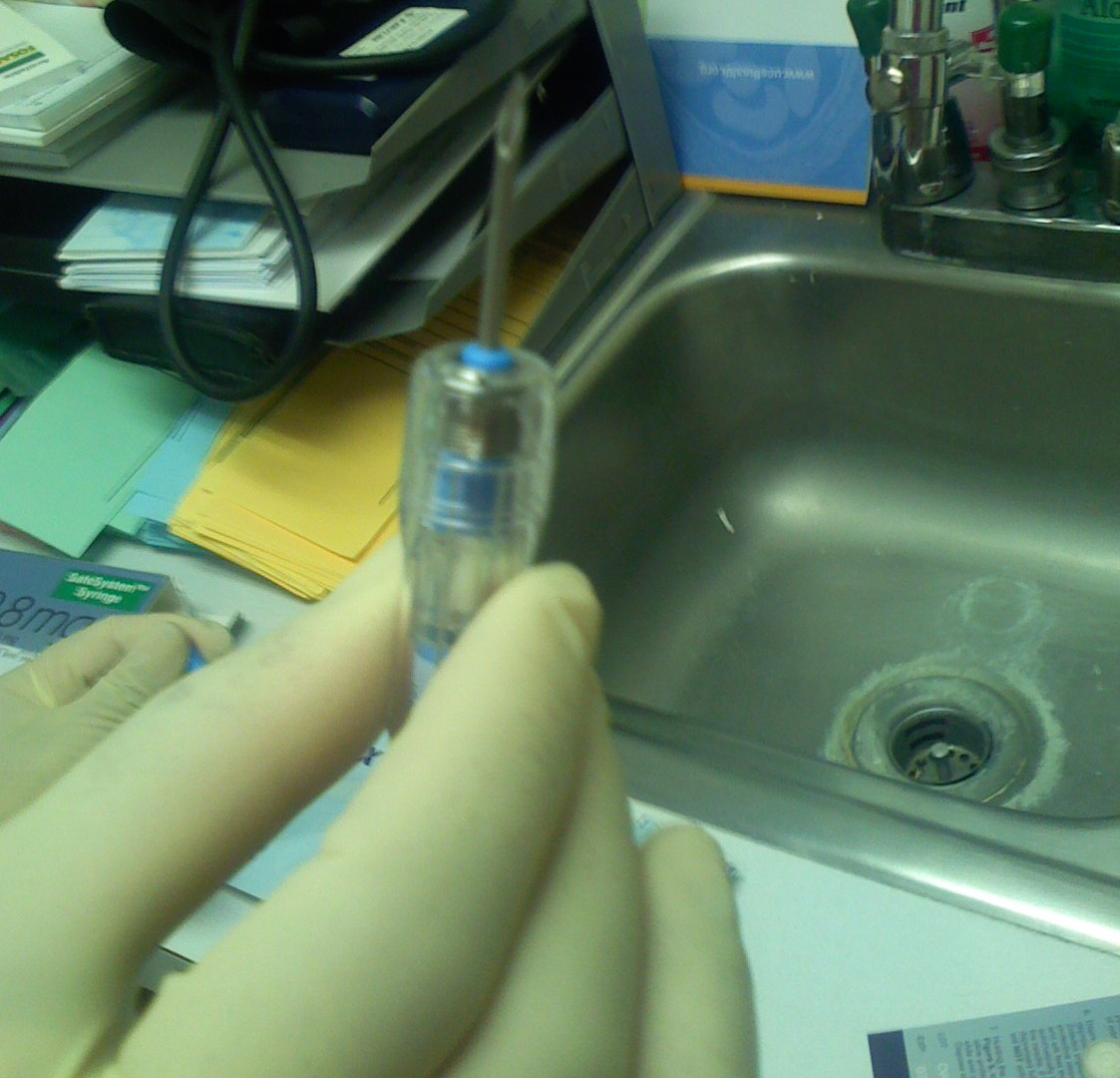 A syringe with automatic safety guard used for injecting solid implants into subcutaneous tissue. This one is a 10.8mg, 3-month dose of goserelin acetate, used to treat various cancers and endocrine disorders. Needle is 14-gauge, ie. 2.1 millimetres (0.083 in) outside diameter, which is considerable!